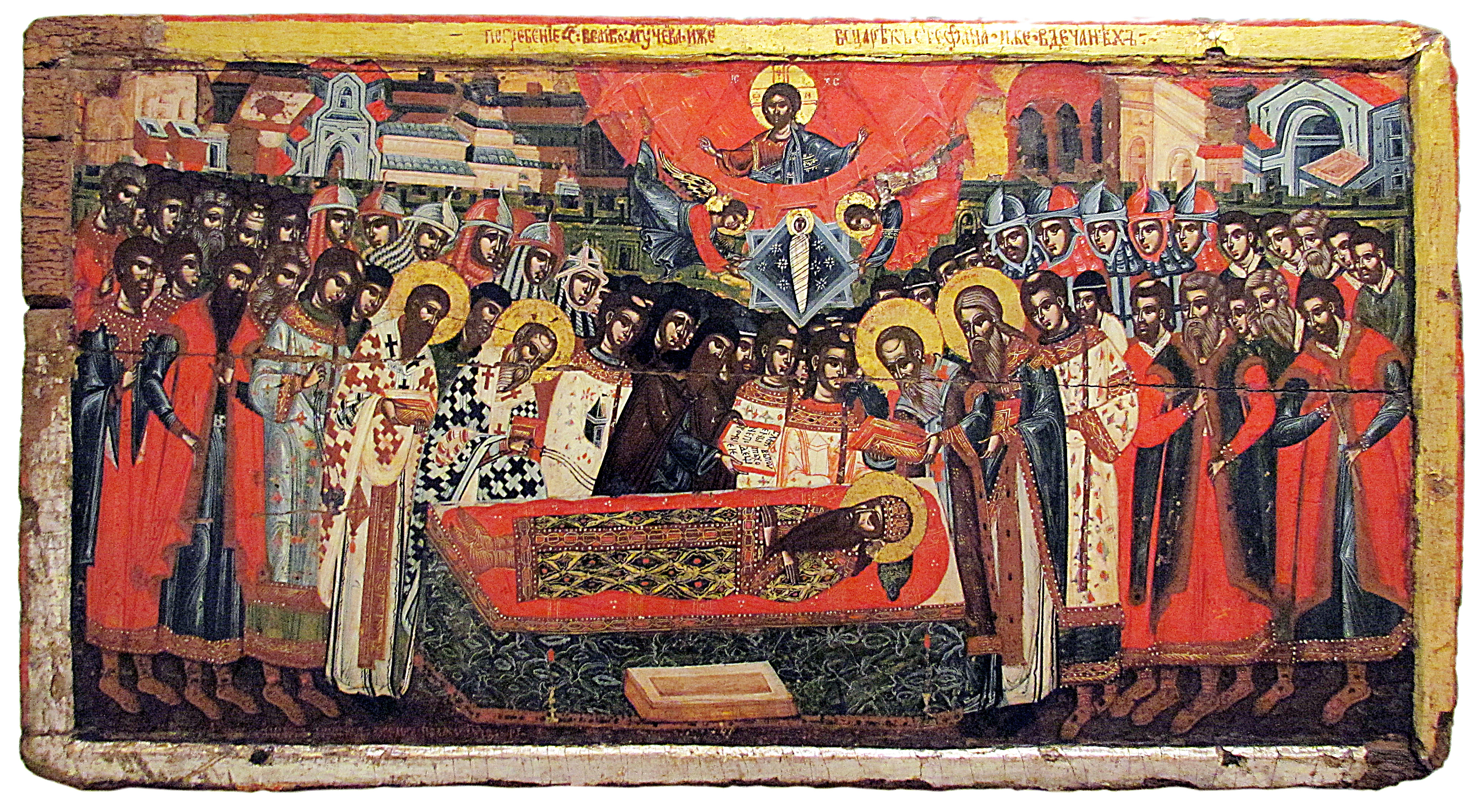 Funeral ceremony of St. Stefan Decanski